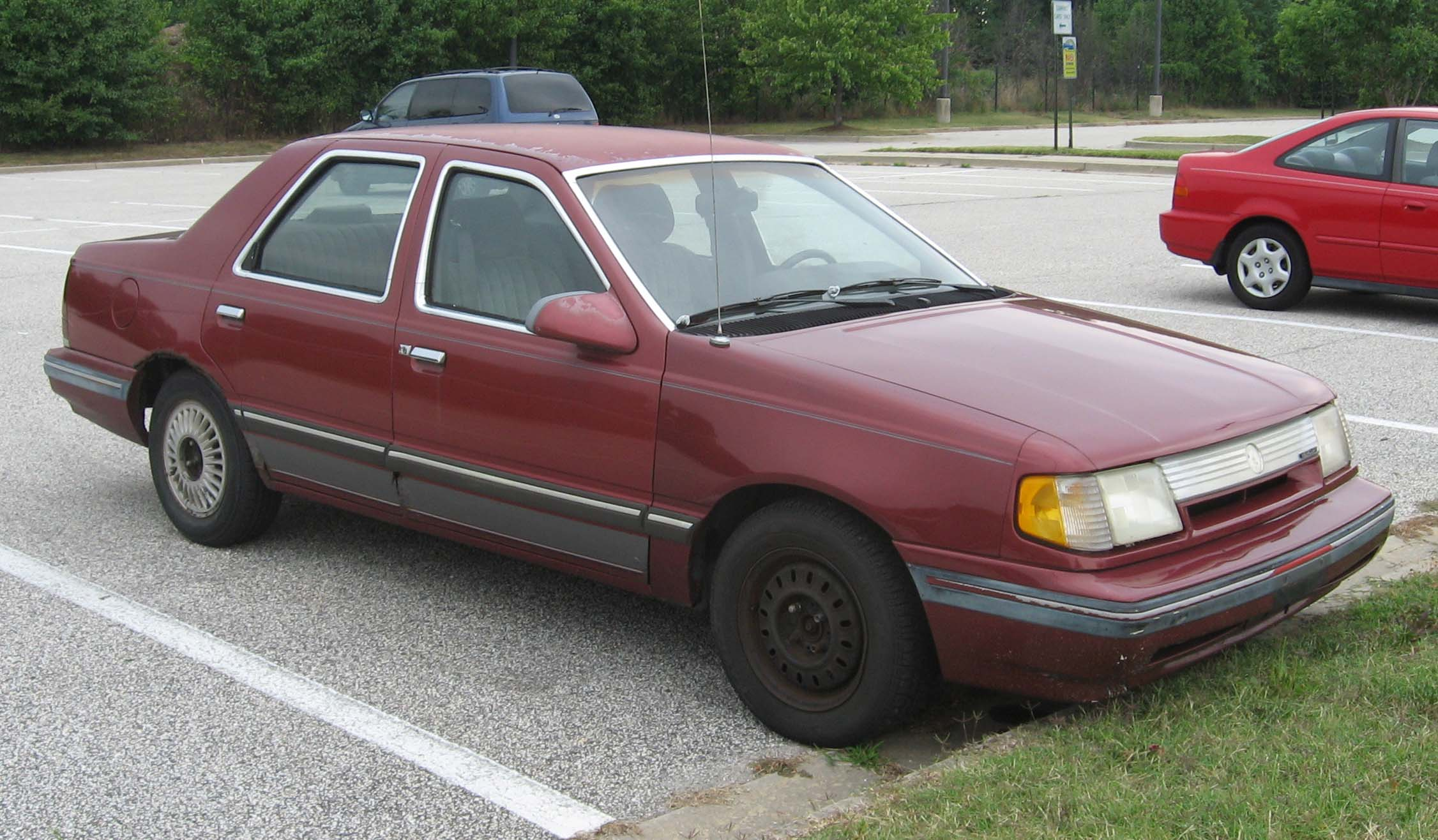 1986-1987 Mercury Topaz photographed in USA.